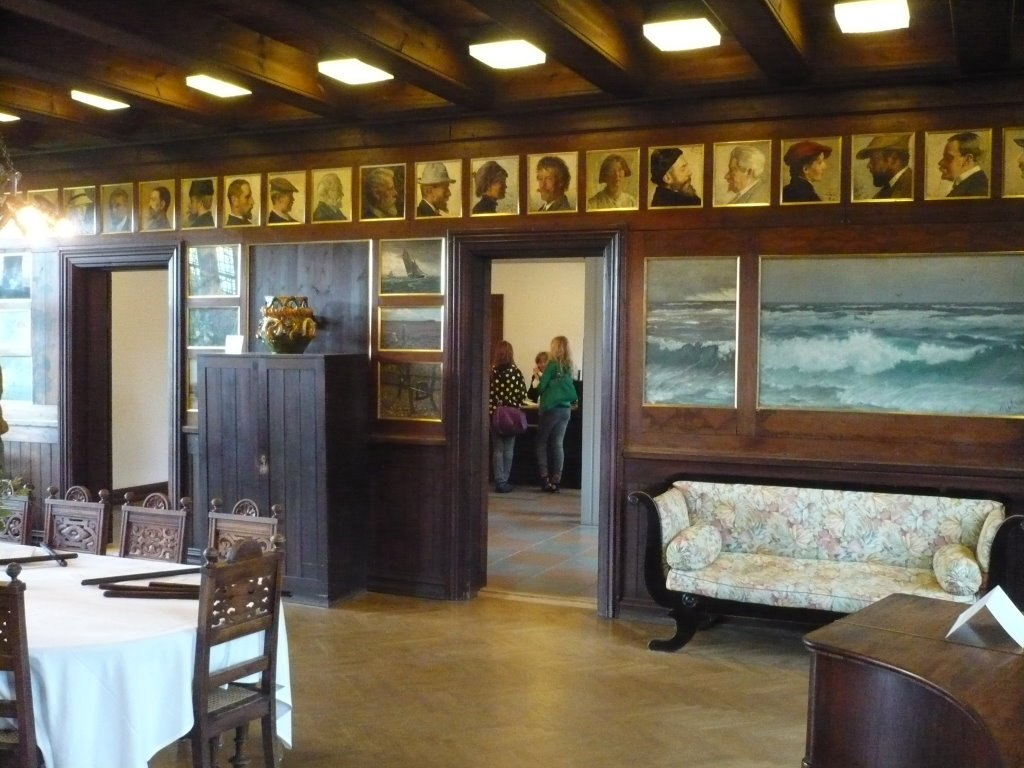 The dining room of Vrøndums Hotel at Skagens Museum in Skagen, Denmark. It was a central venue of the Skagens Painters artist colony and was transferred to the museum in 1946